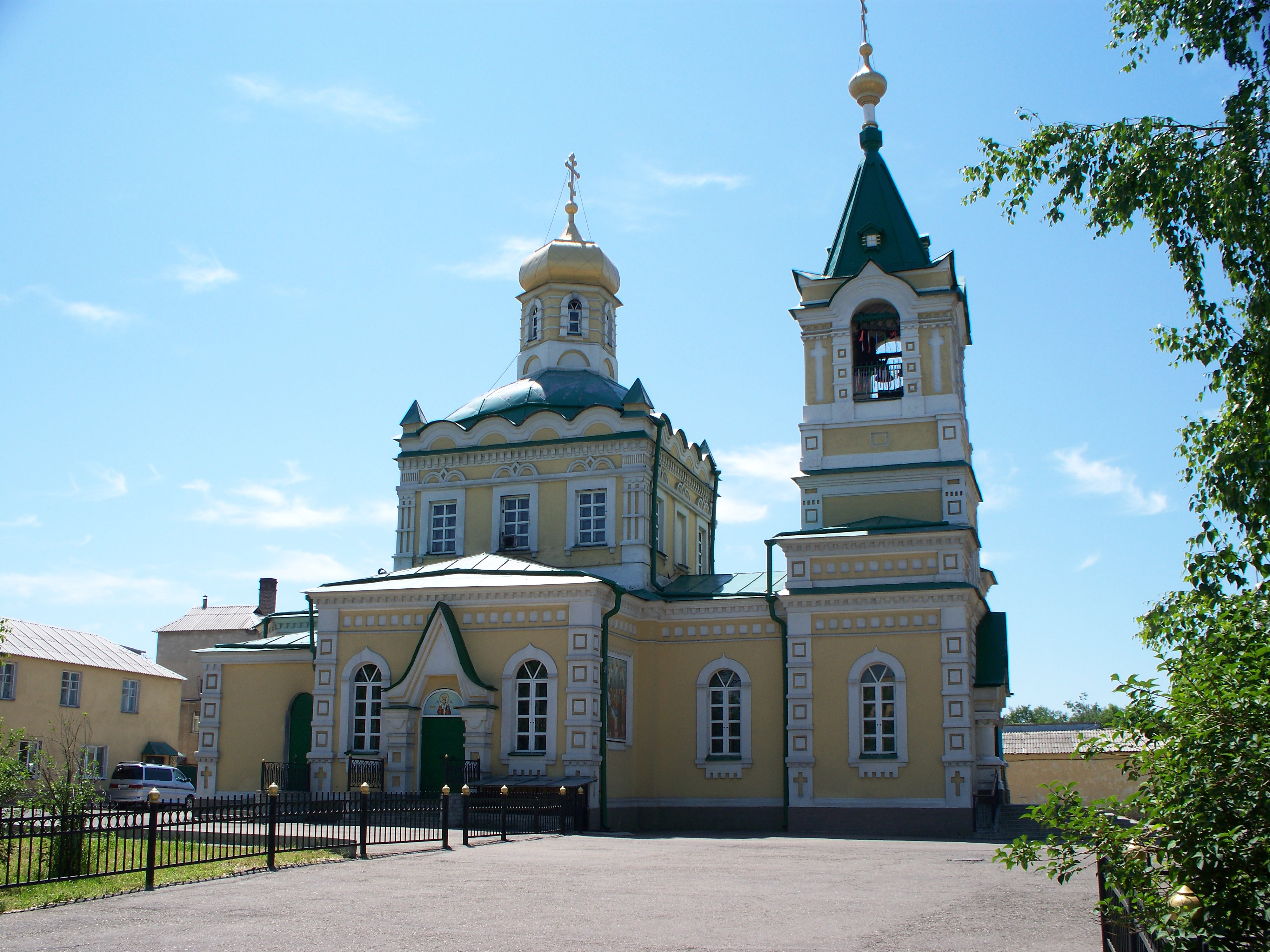 A view of Intercession Church, the main Russian Orthodox Church in Ussuriysk. It was built in 1914 and is one of the few churches in the region to survive the revolution and Communist periods.